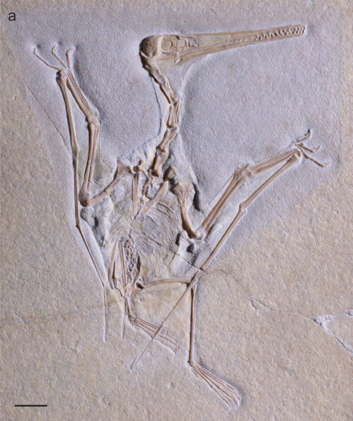 Broili (1938) specimen of Aerodactylus scolopaciceps (BSP 1937 I 18, formerly Pterodactylus) demonstrating extensive soft tissue (scale bar = 20 mm).